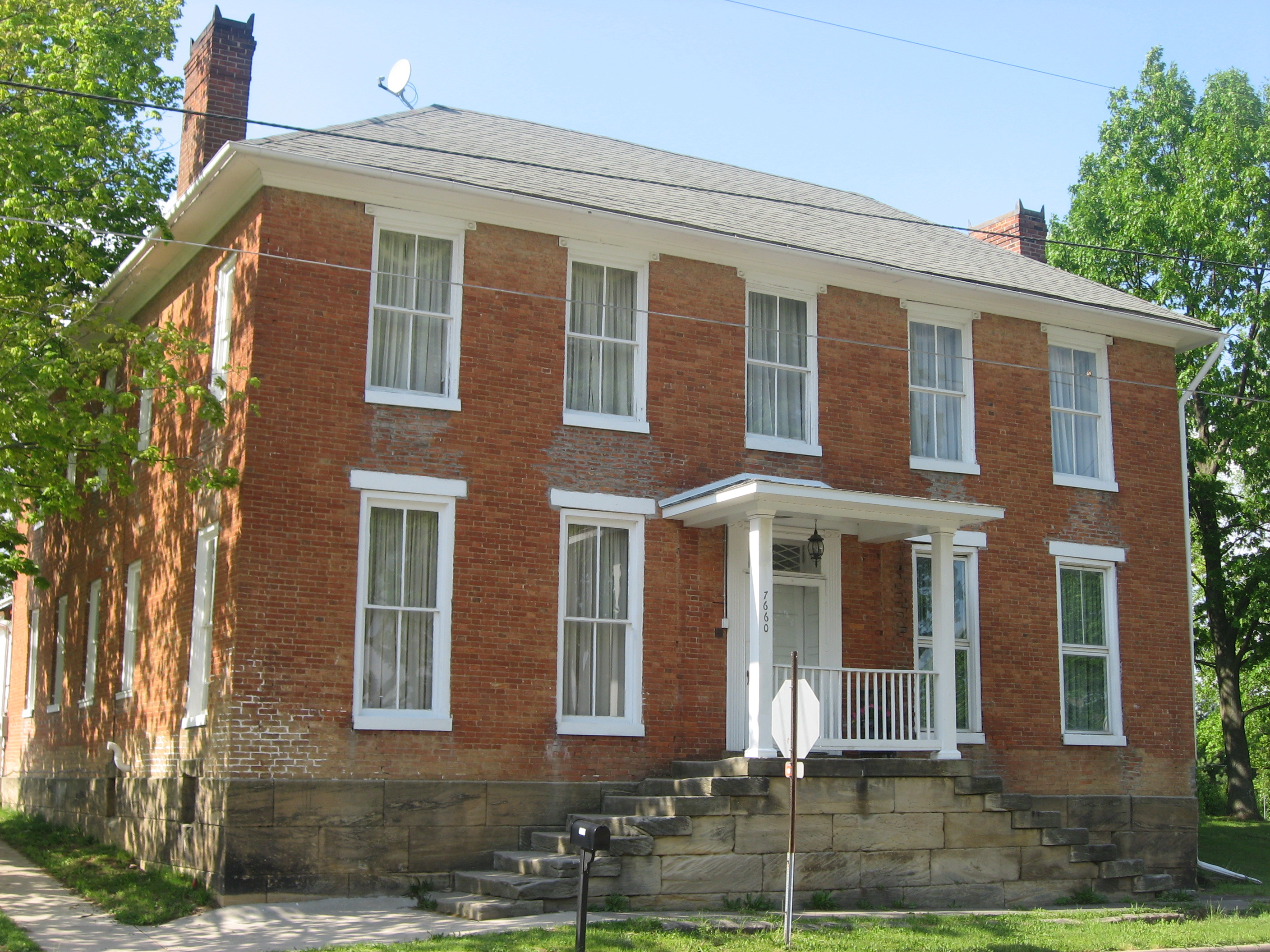 Front and western side of the Joseph Ijams House, located at 7660 Main Street in West Rushville, Ohio, United States. Built in 1810, it is listed on the National Register of Historic Places.